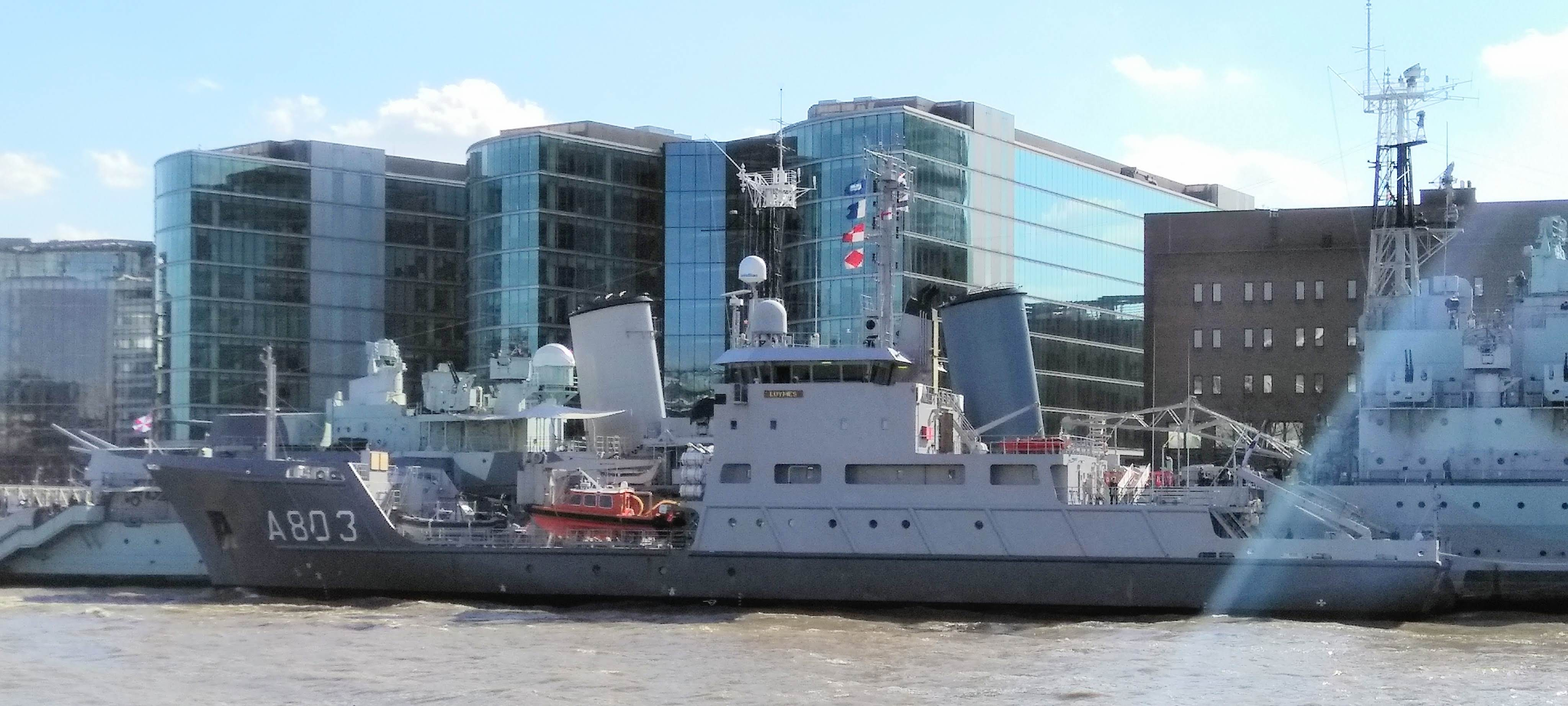 Dutch hydrographic ship HNLMS Luymes in London in March 2019